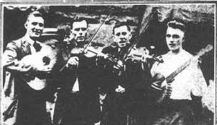 Old time musicians in 1922: guitarrist Bull Brewer, fiddlers Earl Johnson and John carson and banjoist L.E. Atkins